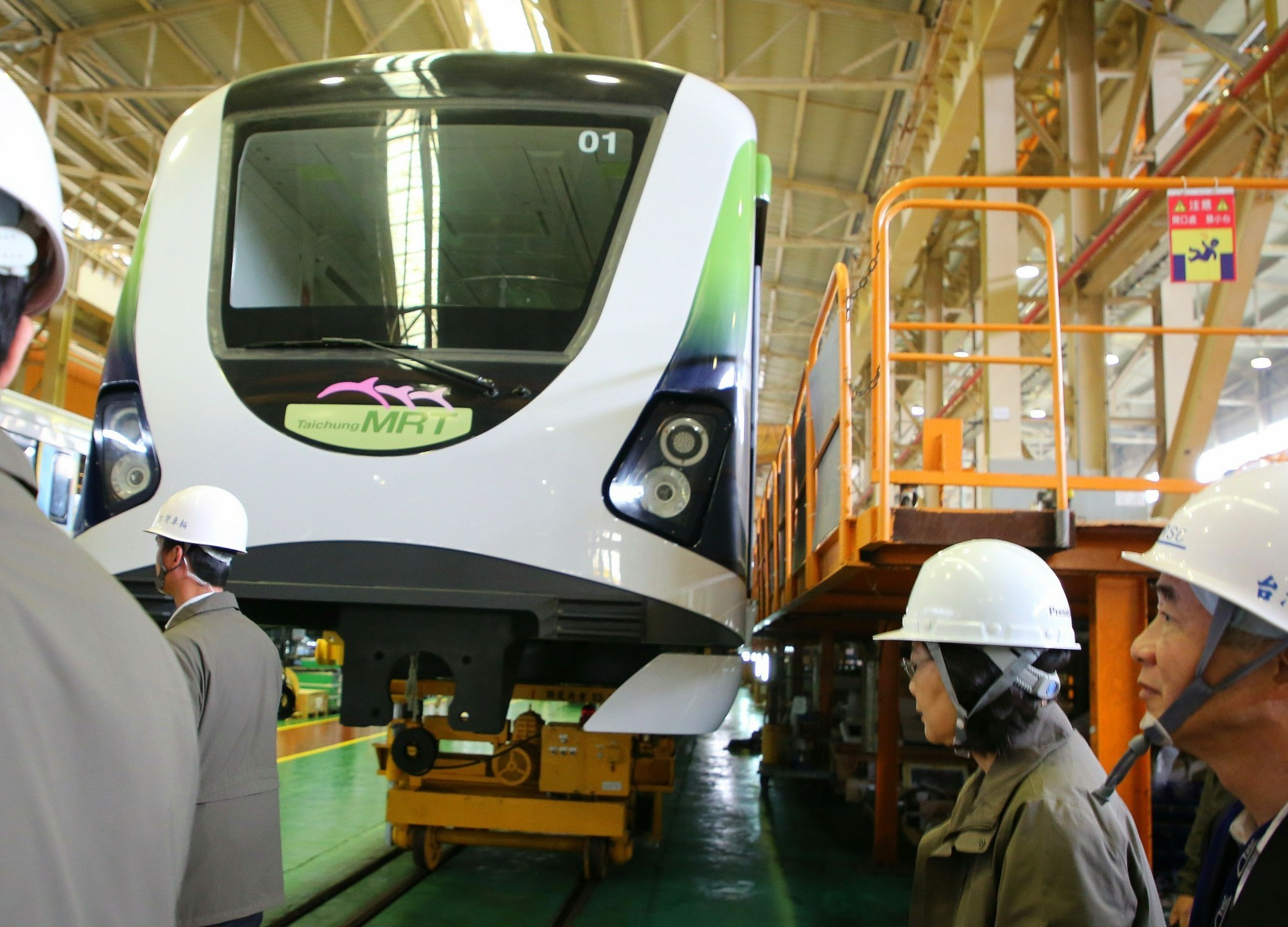 授權方式及範圍：中華民國總統府│政府網站資料開放宣告 Authorization Method & Scope: Office of the President, Republic of China (Taiwan) | Government Website Open Information Announcement